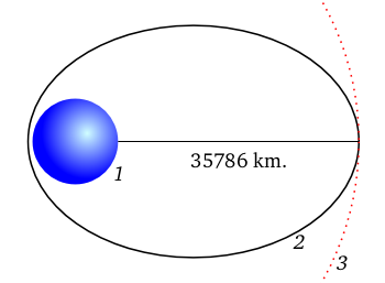 Geostationary Tranfert Orbit (GTO) schematics.